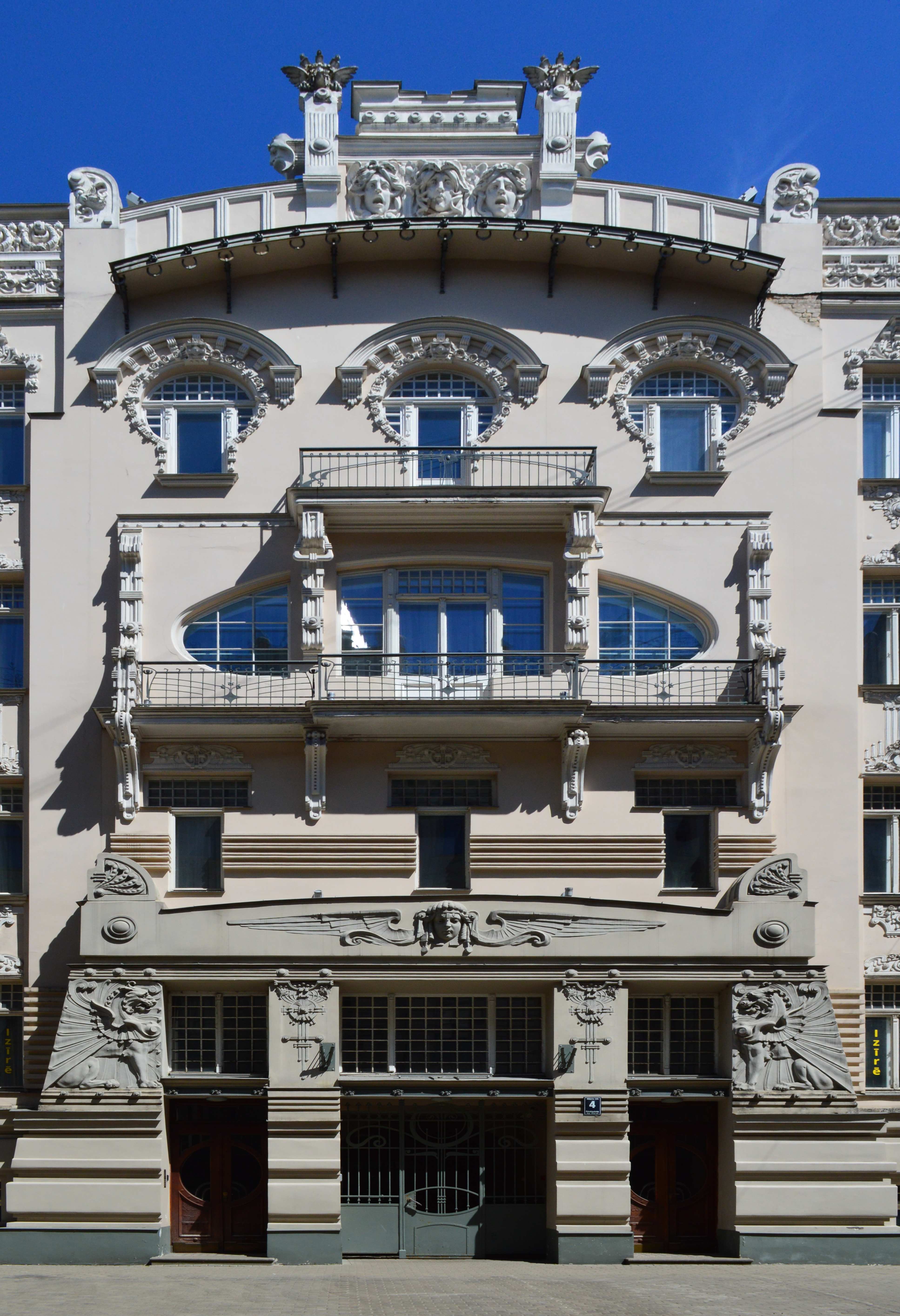 Latvia, officially the 'Republic of Latvia', is a country in the Baltic region of Northern Europe. Since its independence, Latvia has been referred to as one of the ‘Baltic states’. After centuries of Swedish, Polish-Lithuanian and Russian rule, a rule mainly executed by the Baltic German aristocracy, the Republic of Latvia was established on 18 November 1918 when it broke away and declared independence in the aftermath of World War I. However, by the 1930s the country became increasingly autocratic after the coup in 1934 establishing an authoritarian regime under Kārlis Ulmanis. The country's 'de facto' independence was interrupted at the outset of World War II, beginning with Latvia's forced incorporation into the Soviet Union, followed by the invasion and occupation by Nazi Germany in 1941, and the re-occupation by the Soviets in 1944 (Courland Pocket in 1945) to form the Latvian SSR for the next 45 years. The peaceful Singing Revolution, starting in 1987, called for Baltic emancipation from Soviet rule and condemning the Communist regime's illegal takeover. It ended with the Declaration on the Restoration of Independence of the Republic of Latvia on 4 May 1990, and restoring 'de facto' independence on 21 August 1991. Latvia’s capital and largest city is Riga which was founded in 1201 and is a former Hanseatic League member. Riga's historical centre is a UNESCO World Heritage Site, noted for its Art Nouveau/Jugendstil architecture and nineteenth century wooden buildings. The Scotch Mist Gallery contains many photographs of historic buildings, monuments and memorials of Poland and countries that previously comprised the Polish-Lithuanian Commonwealth.